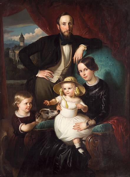 A portrait of the von Cramm family with the family home, Schloss Oelber, in the distance. Oil on canvas, 174 x 129 cm. According to the inscription that was transcribed from the original canvas, the sitters are Adalbert von Cramm (1818-1851), his wife Mechthilde von Cramm, née Countess Veltheim (1825-1874), and their children Edgar (1846-1909) and Herta (born 1847). Edgar was the grandfather of Gottfried von Cramm (1909-1976) the well-known tennis player.